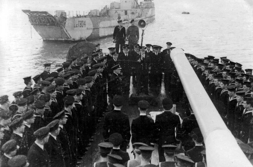 Polish cruiser ORP Conrad, ex HMS Danae Author:unknown Date:1944